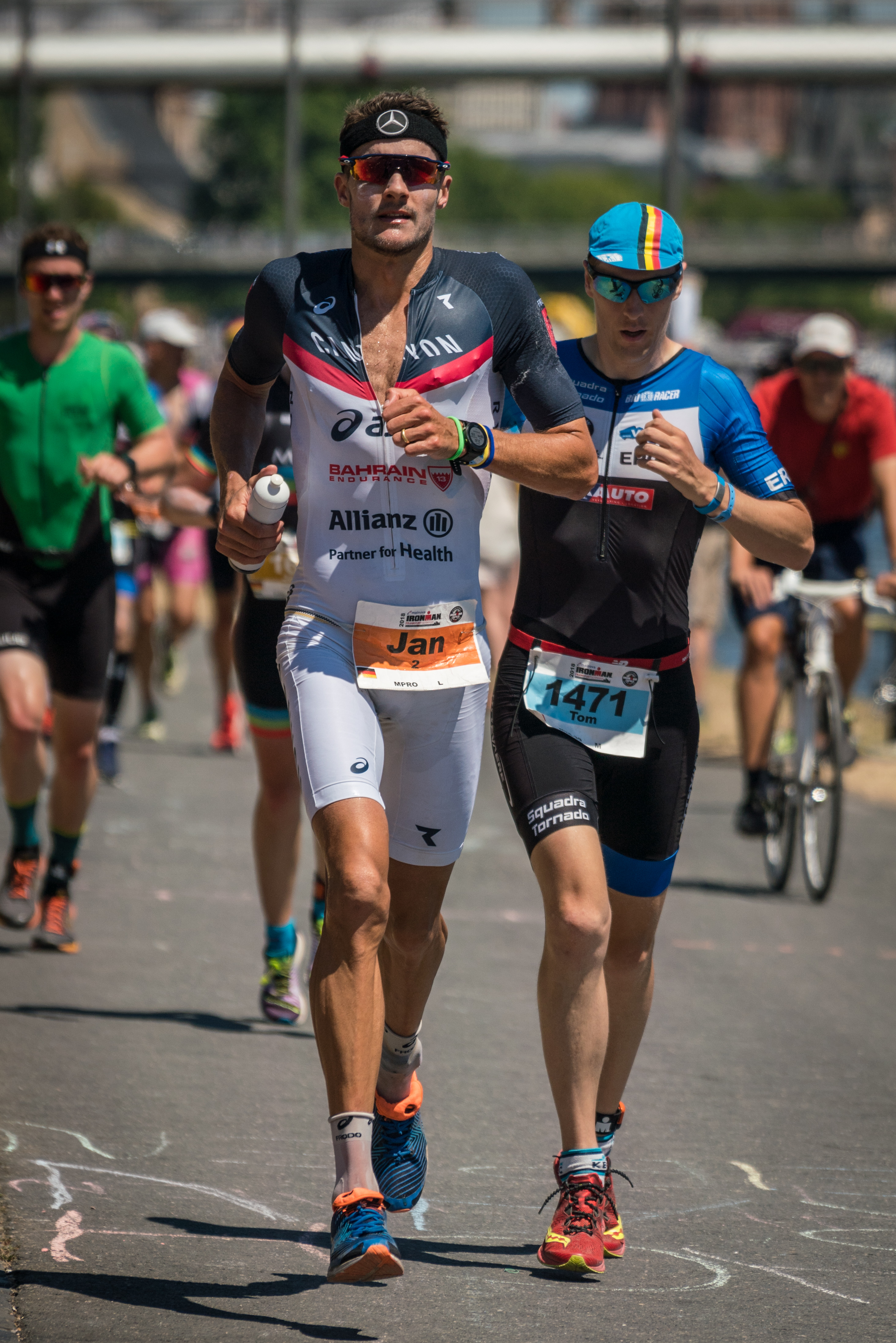 First male Jan Frodeno at the 2018 Ironman European Championship in Frankfurt am Main (Germany).